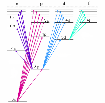 Atomic transitions in the Bohr model of the sodium atom